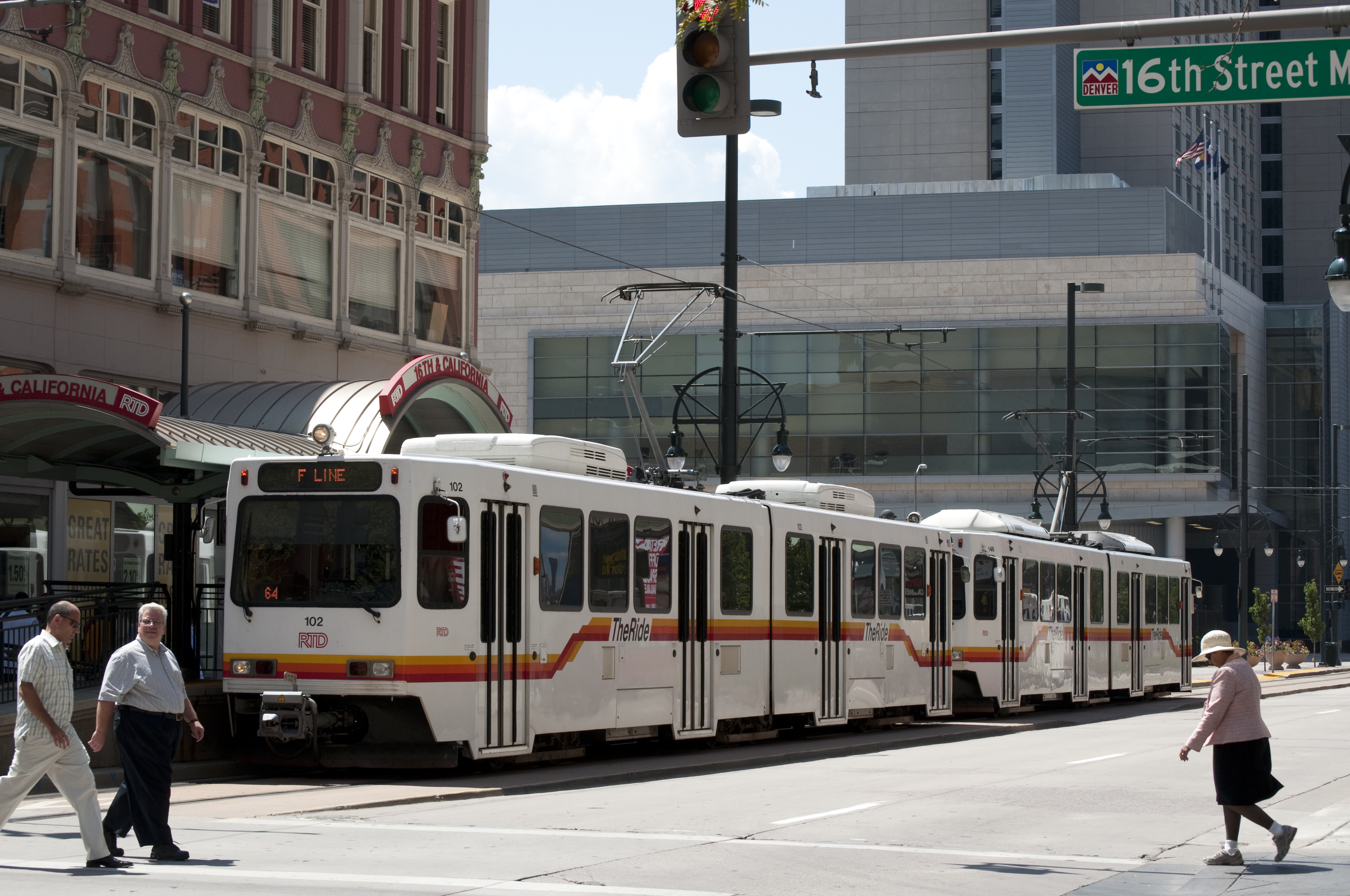 north america, road trip, the west, rocky mountains